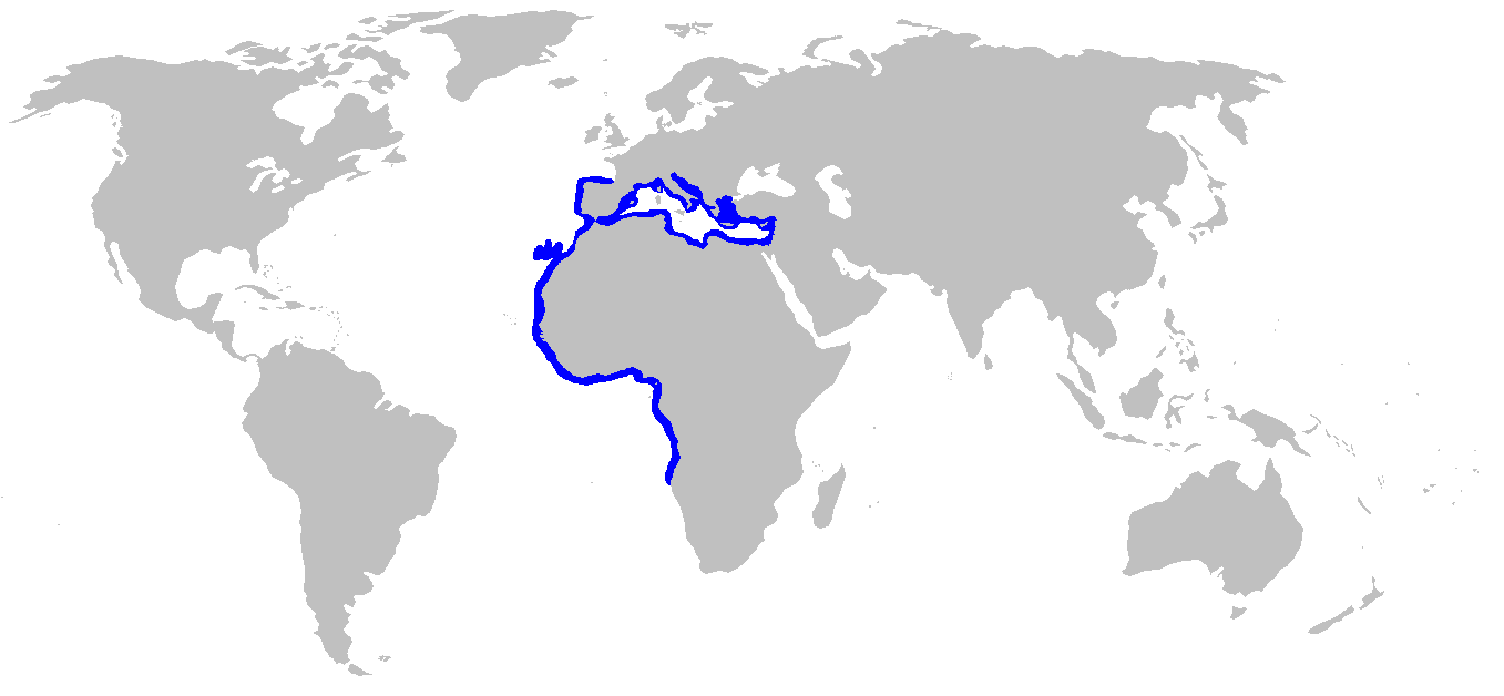 Distribution of the common torpedo (Torpedo torpedo), based on [1]